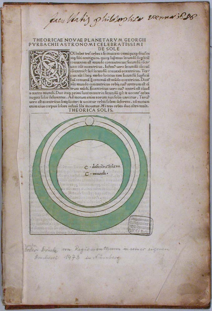 Georg von Peuerbach: "Theoricae novae planetarum", 1473